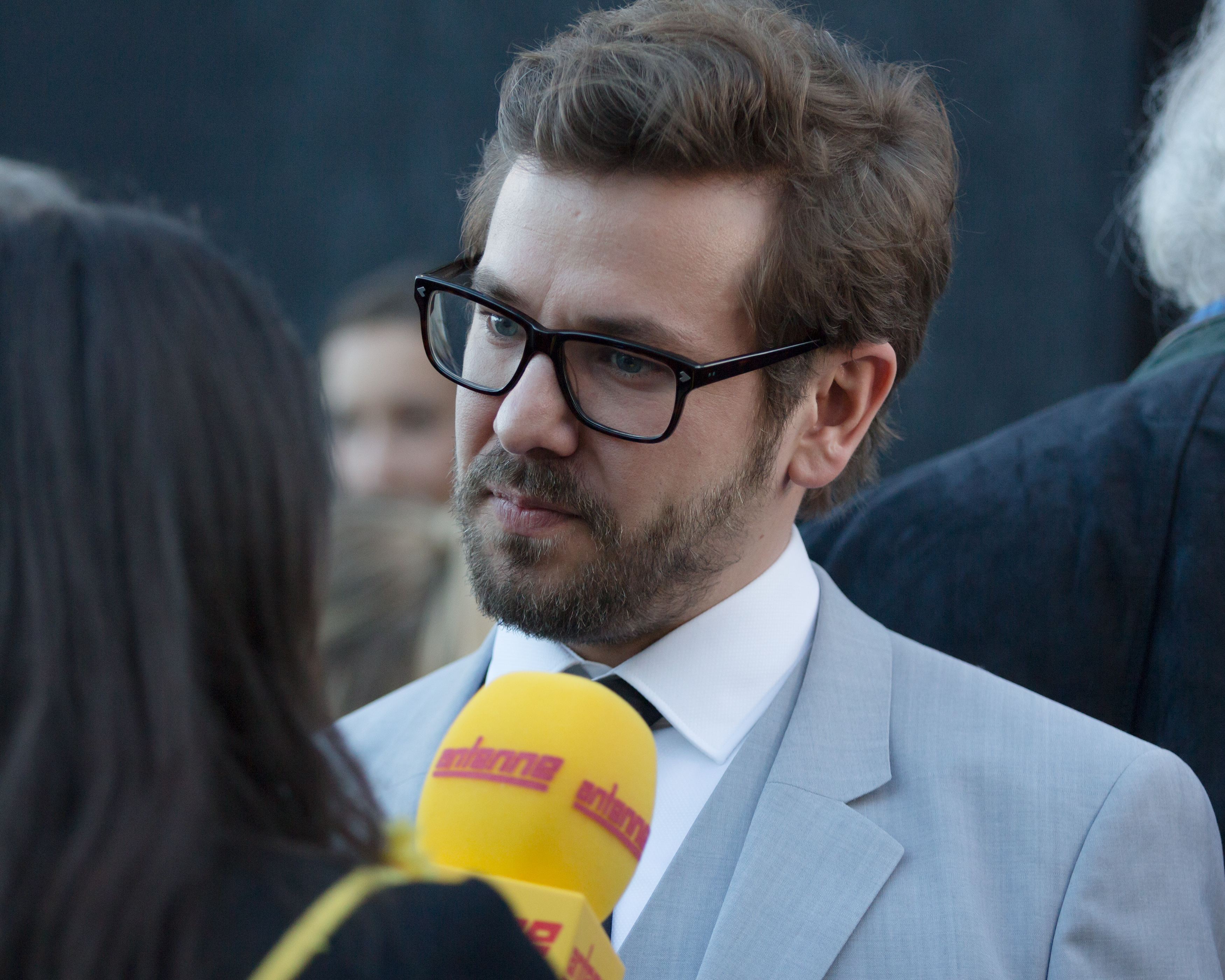 Lemo at the Amadeus Austrian Music Award 2017 at Volkstheater in Vienna.